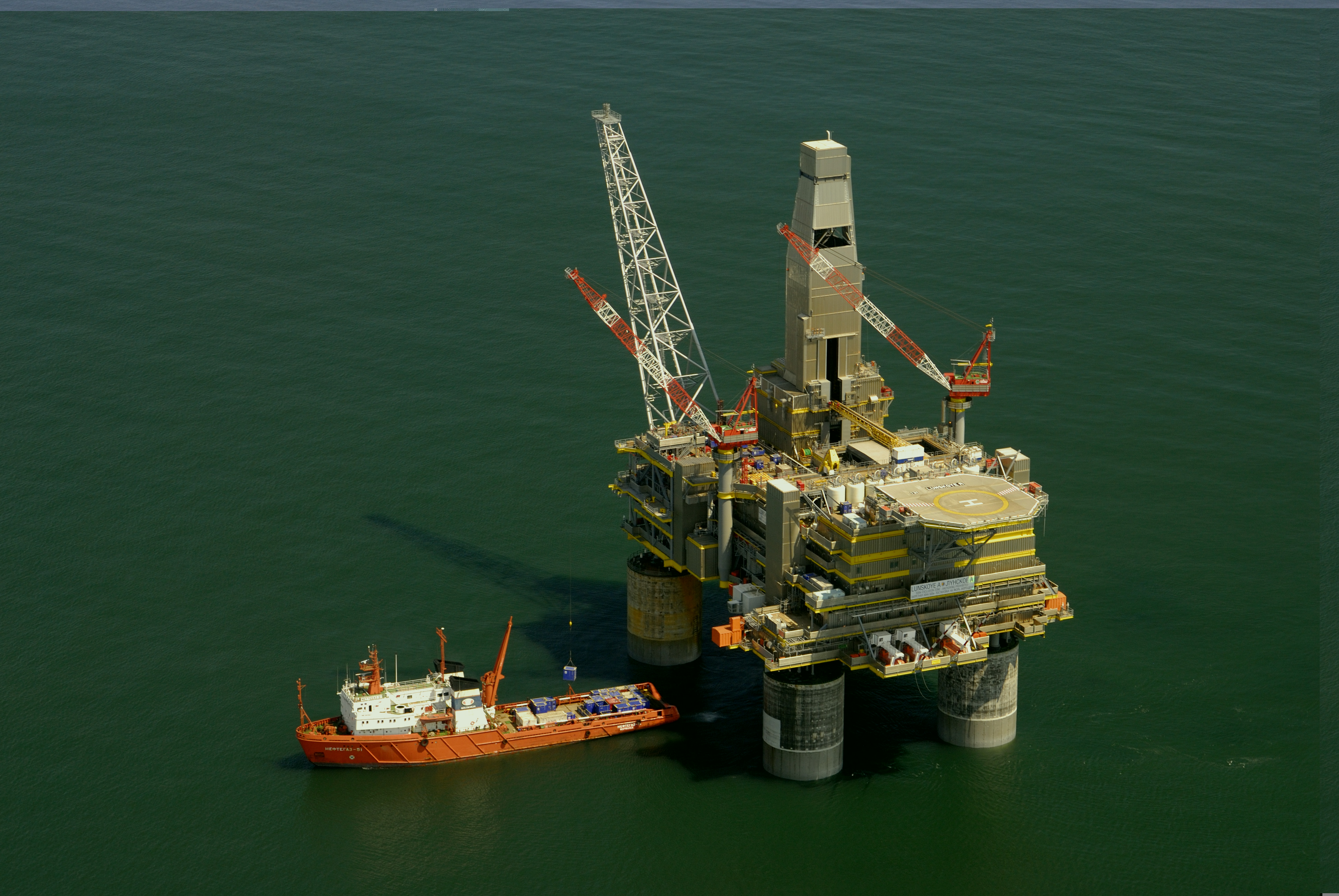 The Lun-A (Lunskoye-A) platform, located 15 km off the north eastern coast of Sakhalin Island, in a water depth of 48 m. It is a drilling and production platform with minimum processing facilities. the four legged concrete gravity base substructure (CGBS) was engineered and constructed in Vostochniy port by Aker Kvaerner Technology AS and Quattrogemini OY and was installed in June 2005.